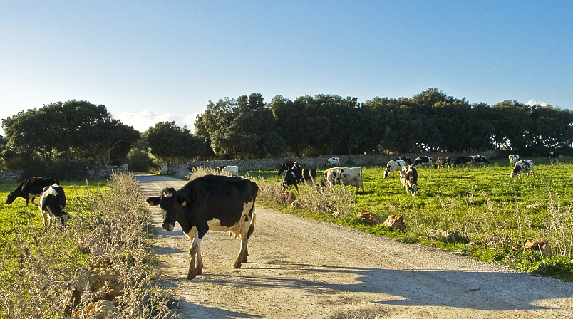 Minorca cows.